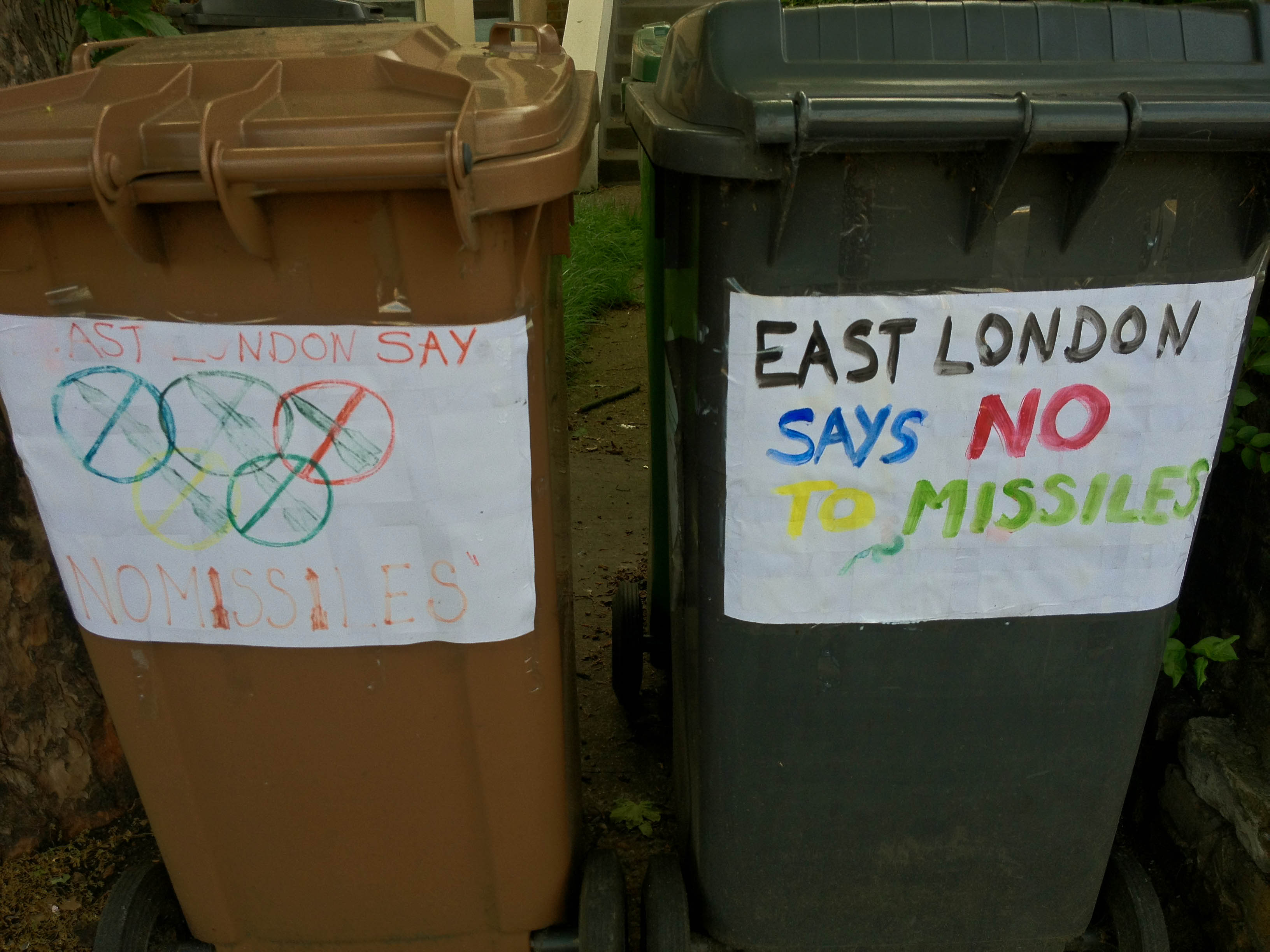 Wheelie bins, Leytonstone. Campaign against the siting of missiles in parts of East London during the 2012 Olympic Games in Stratford.